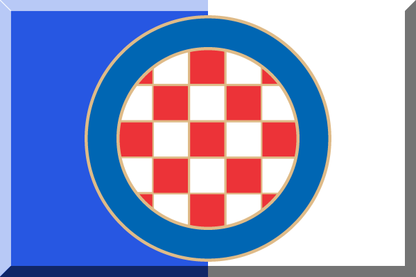 Fantasy football flag for Hajduk Spalato